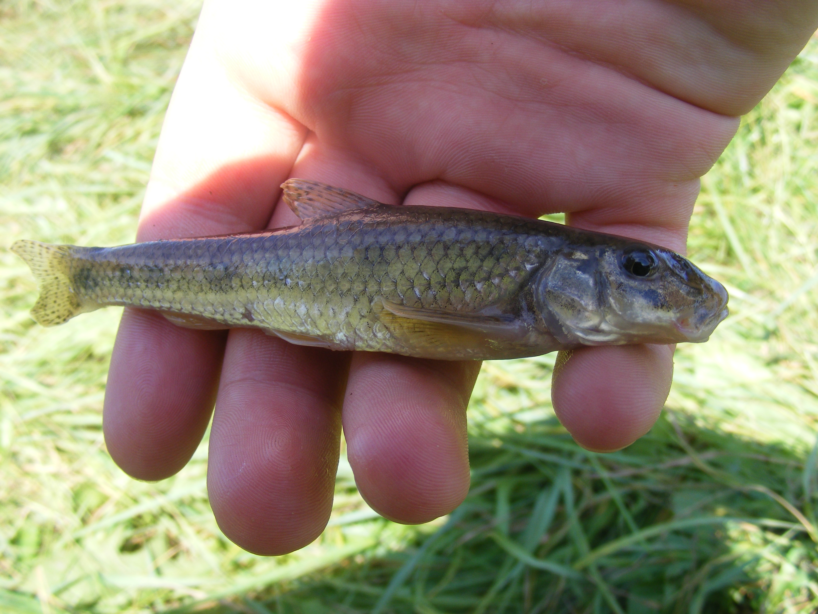 Gobio gobio